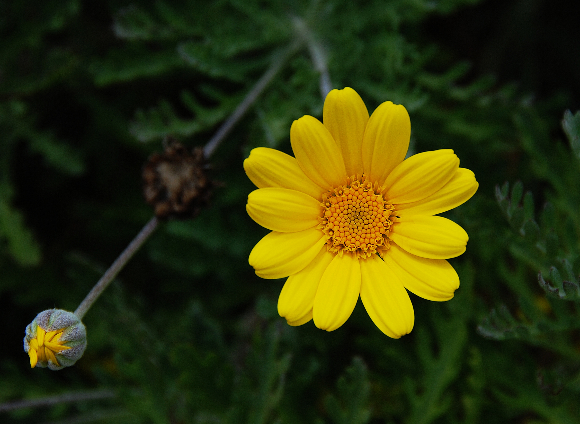 Flower and bud of yellow chamomile (Anthemis tinctoria)